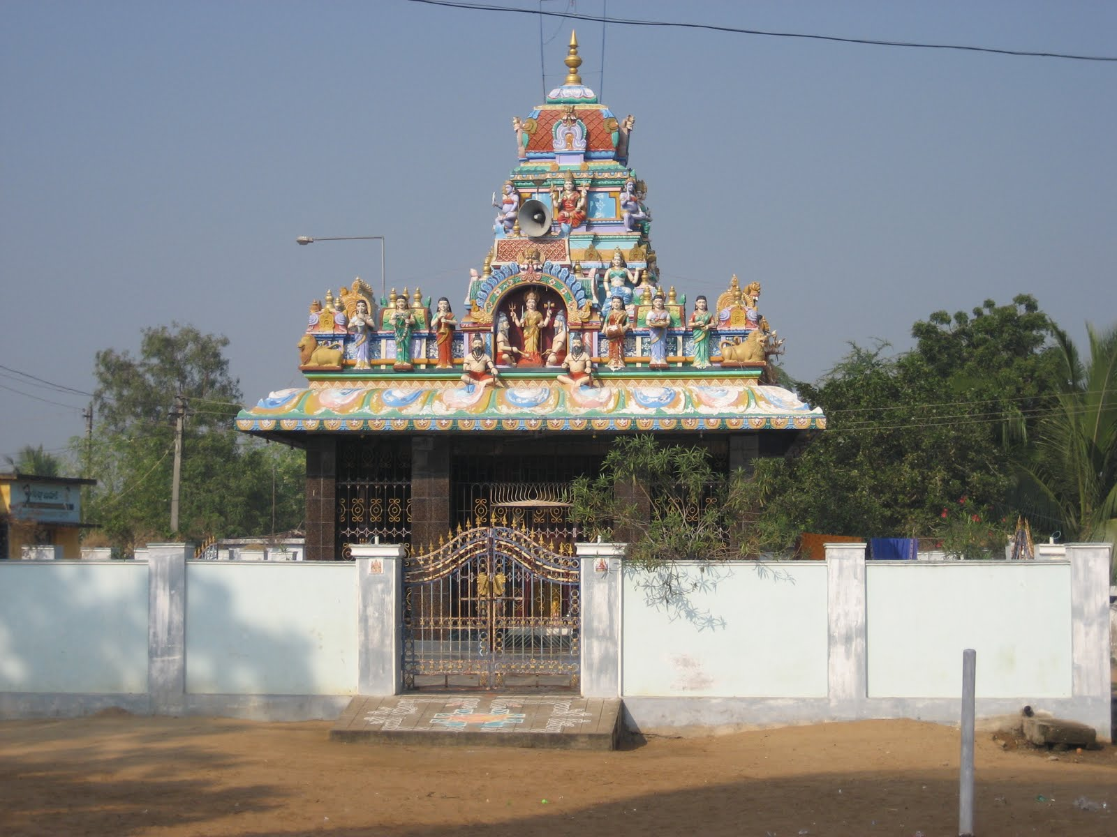 Pakala_prakasam_Jalamma_Temple